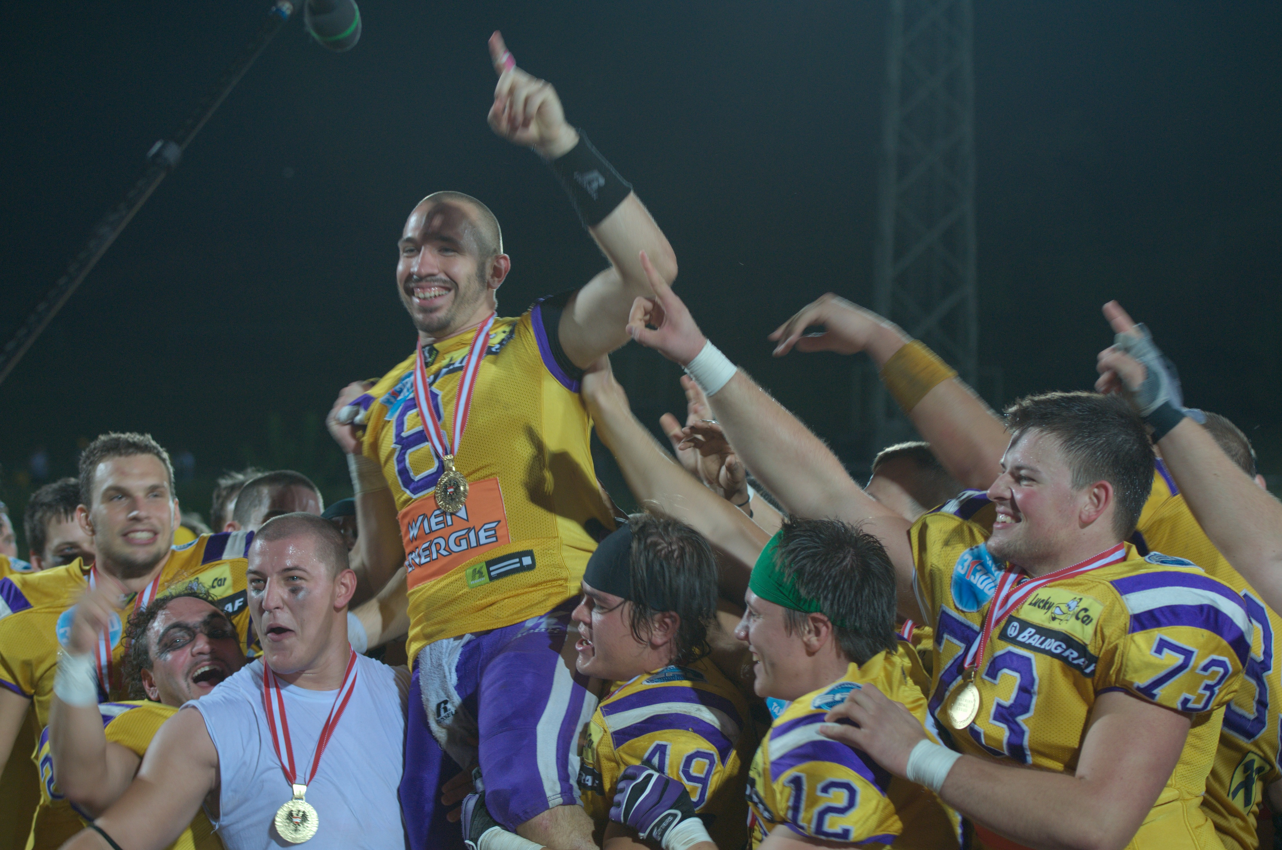 Die Vikings lassen den MVP der Austrian Bowl XXVIII, Christoph Gross, hochleben